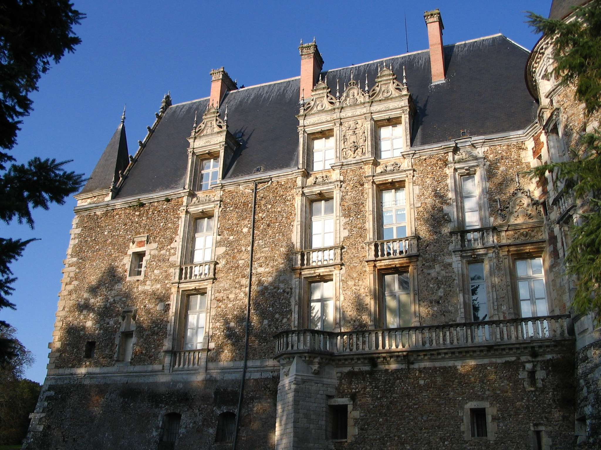 The castle of Courtalain, Eure-et-Loir, France